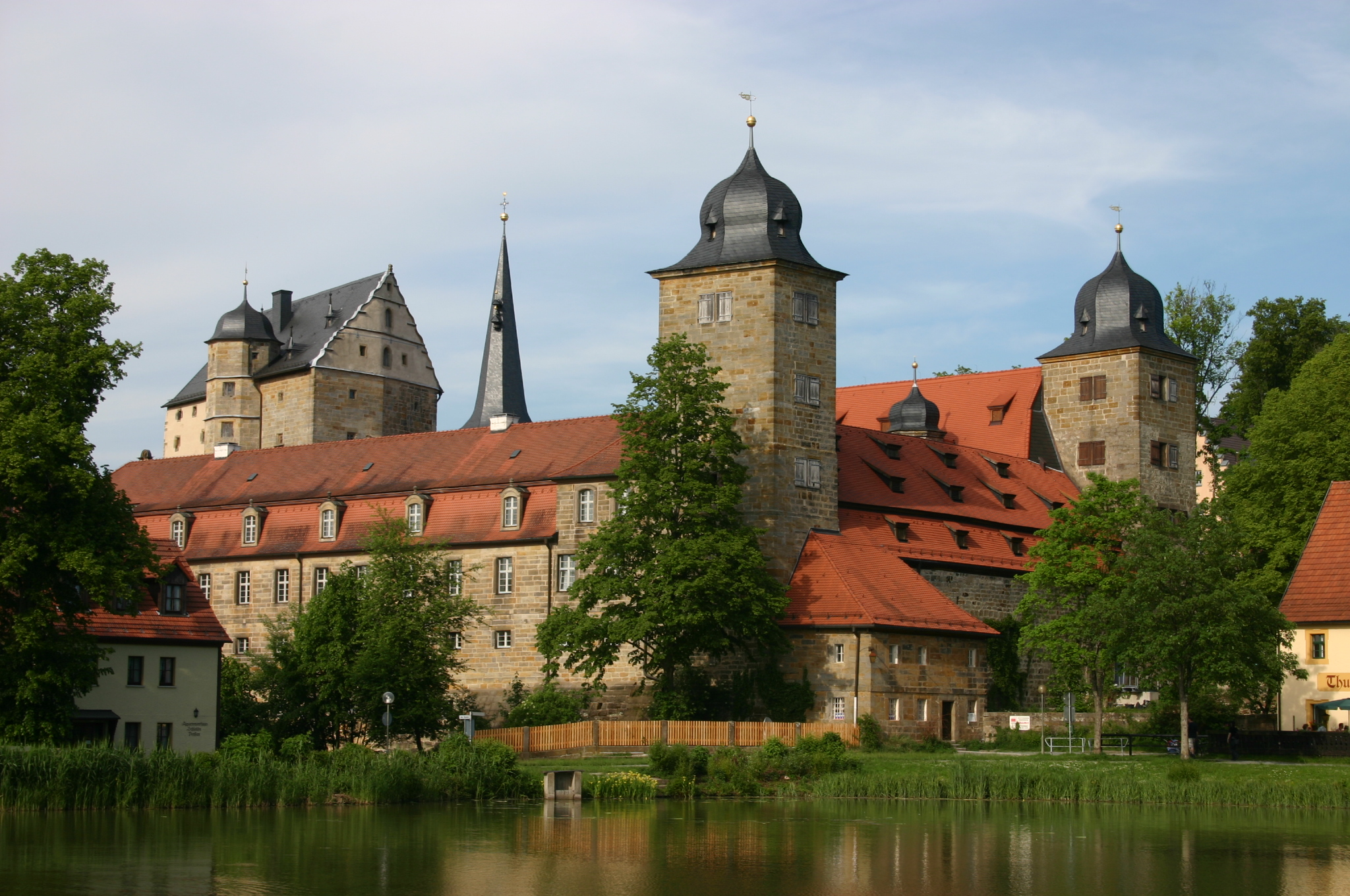 Thurnau Castle from the lake.